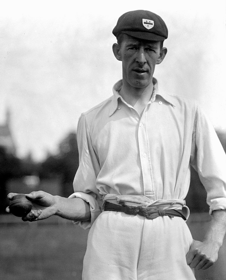 Edward George Arnold, Worcestershire and England, circa 1905.